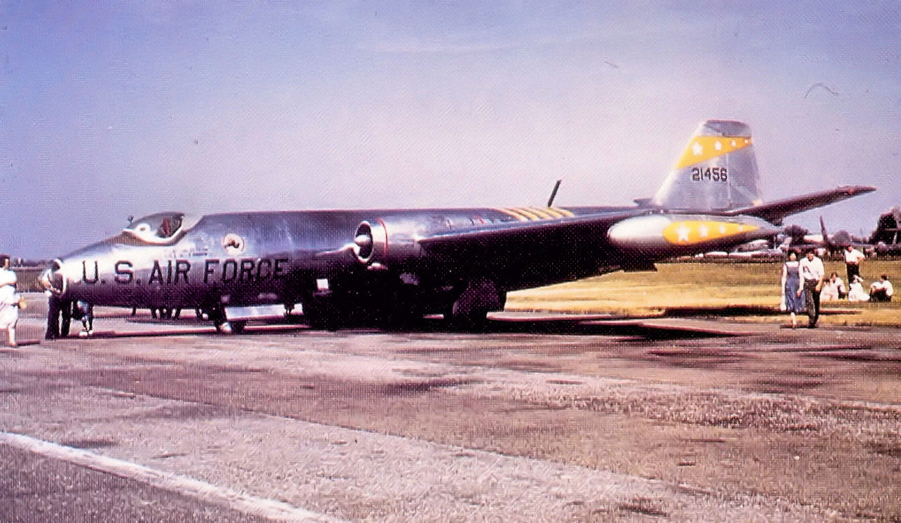 30th Tactical Reconnaissance Squadron - Martin RB-57A-MA - 52-1456, shown at Sembach AB, West Germany, 1955. Aircraft later was assigned to 172d Tactical Reconnaissance Squadron, Michigan ANG 1958-1971 at William Kellogg Airport. Retried in 1971 to AMARC and in 1973 acquired by the Confederate Air Force, Odessa-Midland Airport, Texas. Later moved to other aviation museums. In 1993, the plane was transferred to the Selfridge Military Air Museum, Battle Creek, MI where today is on static display.